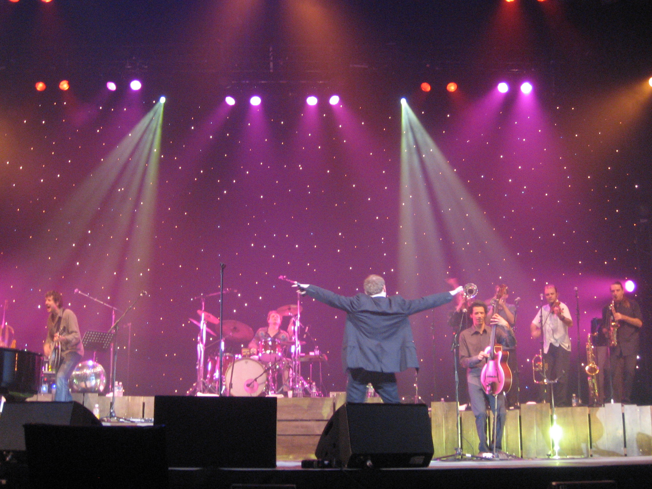 Benabar in concert